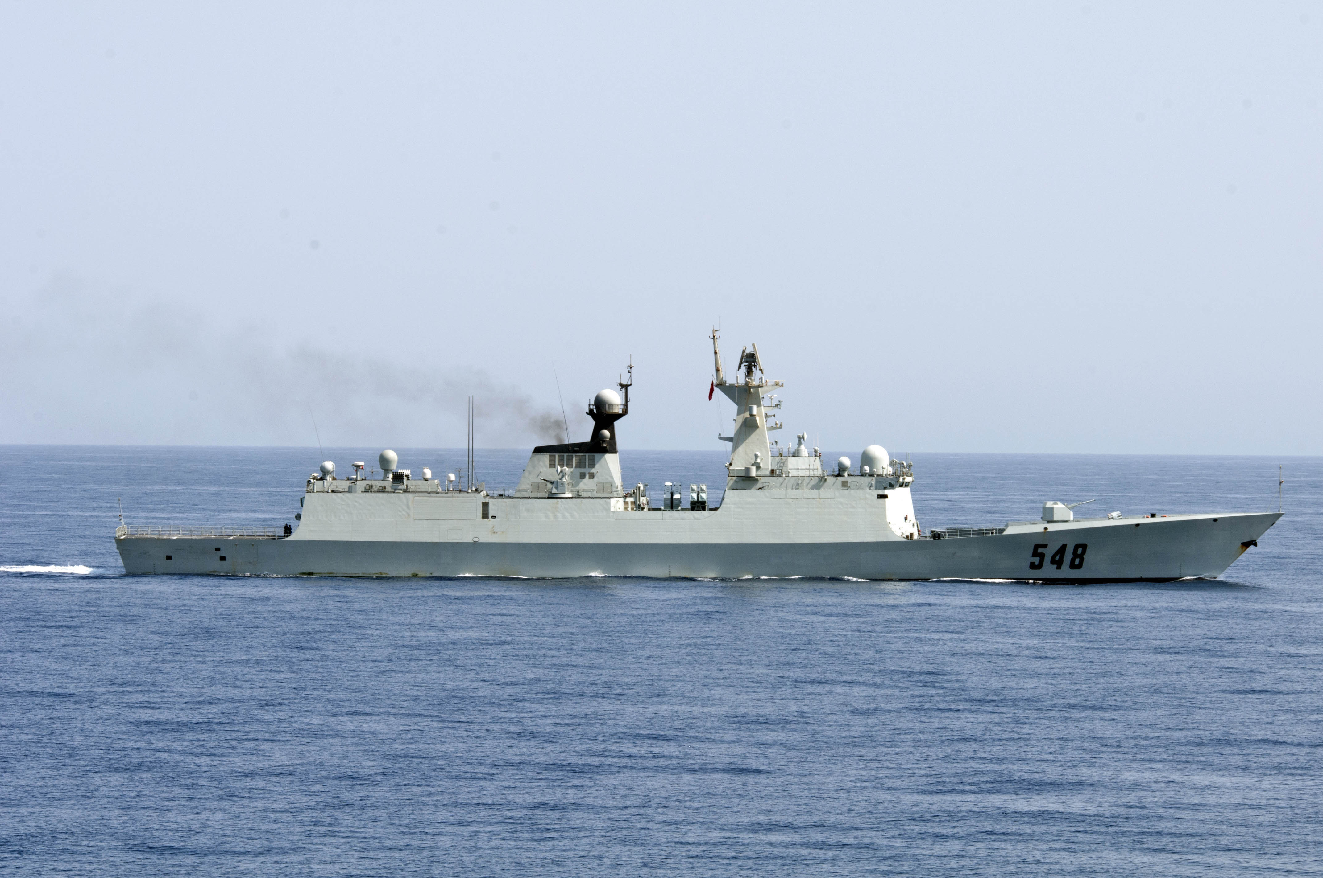 120917-N-YF306-006 GULF OF ADEN (Sept. 17, 2012) The Chinese People's Liberation Army (Navy) frigate Yi Yang (FF 548) transits the Gulf of Aden prior to conducting a bilateral counter-piracy exercise with the guided-missile destroyer USS Winston S. Churchill (DDG 81). The focus of the exercise was American and Chinese naval cooperation in detecting, boarding, and searching suspected pirated vessels. Winston S. Churchill is deployed to the U.S. 5th Fleet area of responsibility conducting maritime security operations, theater security cooperation efforts and support missions for Operation Enduring Freedom.